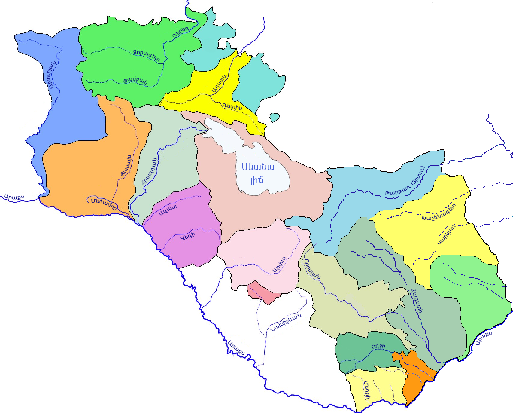 Rivers of Armenia and NKR (Artsakh) Created using these maps: Map of Artsakh (NKR)